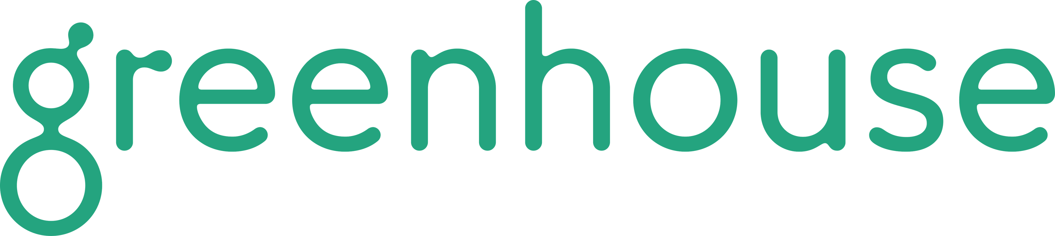 Wordmark version of the Greenhouse Software logo